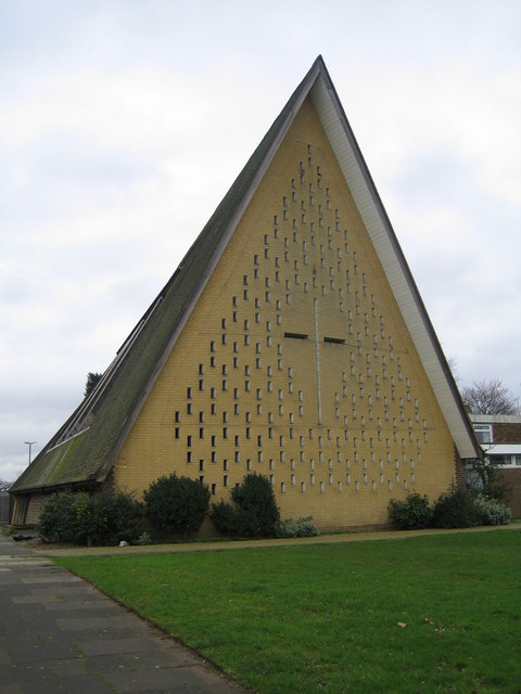 South Hatfield: The Church of St John (1) This is the western façade of this prominent landmark church that is based on an A-frame type of construction and was completed in 1958 to the design of the architect Peter Bosanquet. The northern façade of the Church (the left hand edge in this image) is shown here 305425